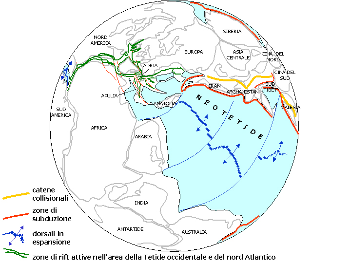 latest Triassic (Rhaetian) image of Earth. Focused on Italian area. Text in italian.